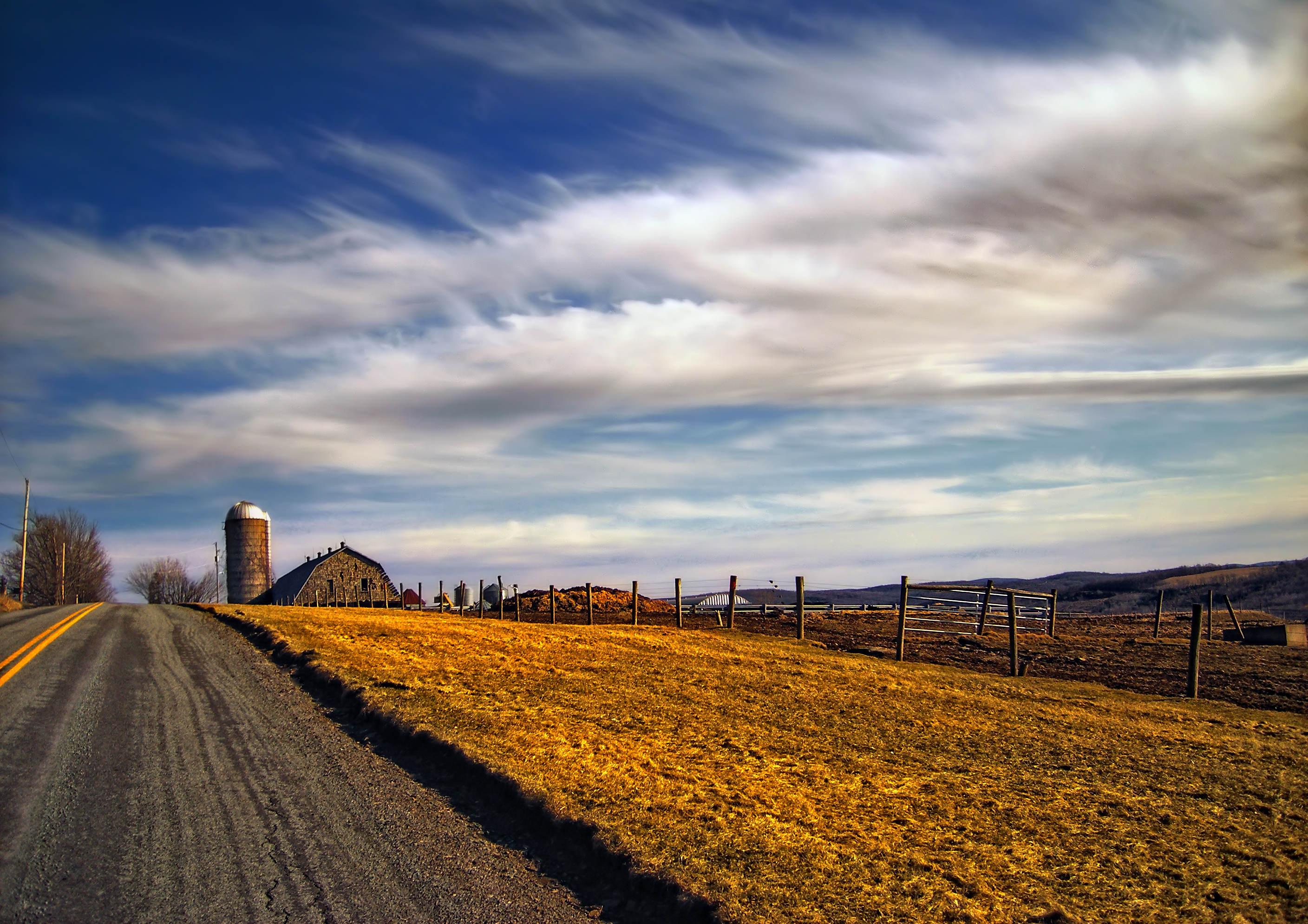 Late-day light, Clifford Township, Susquehanna County.